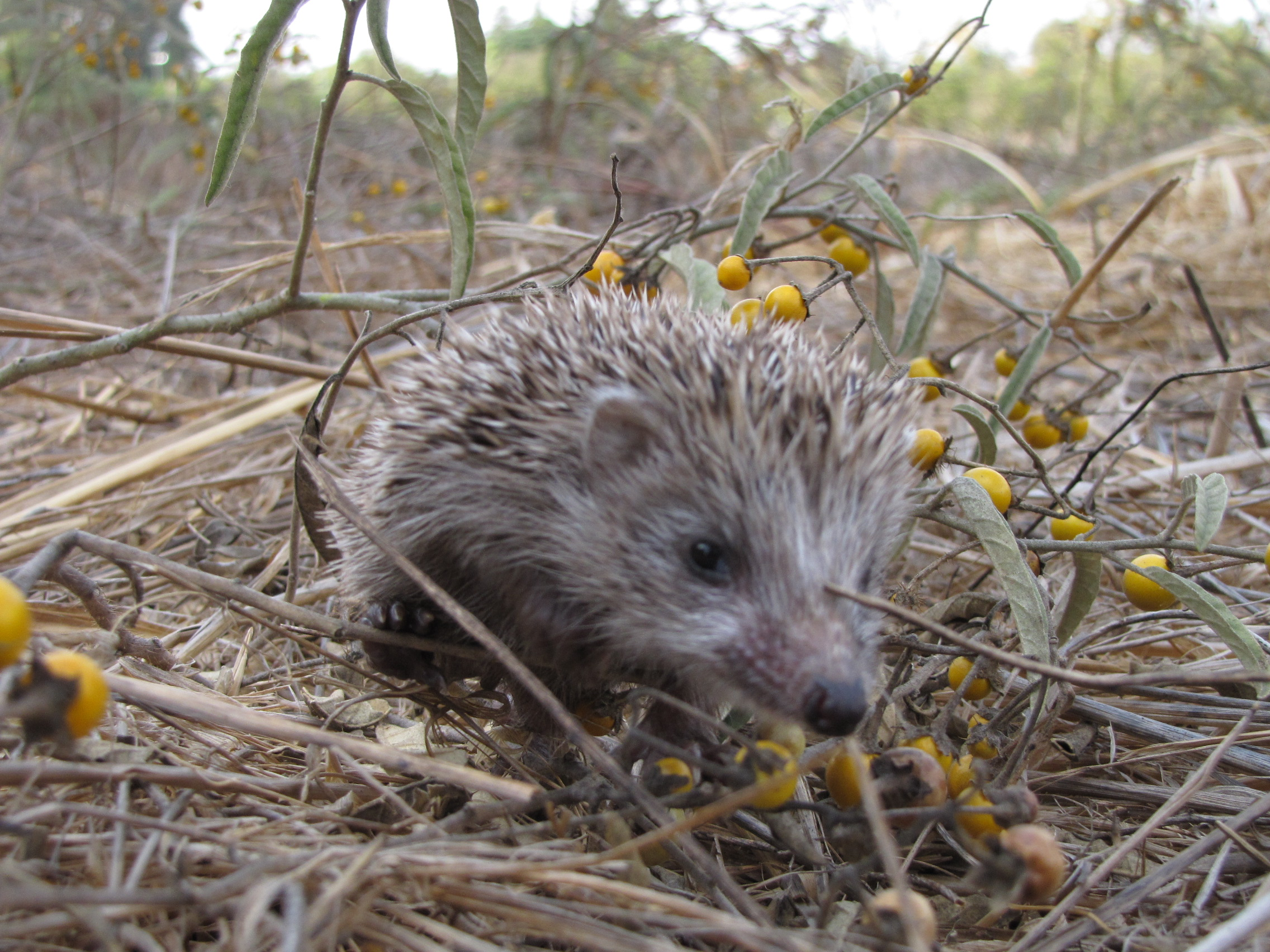 Hedgehog in the village (Sirkin)